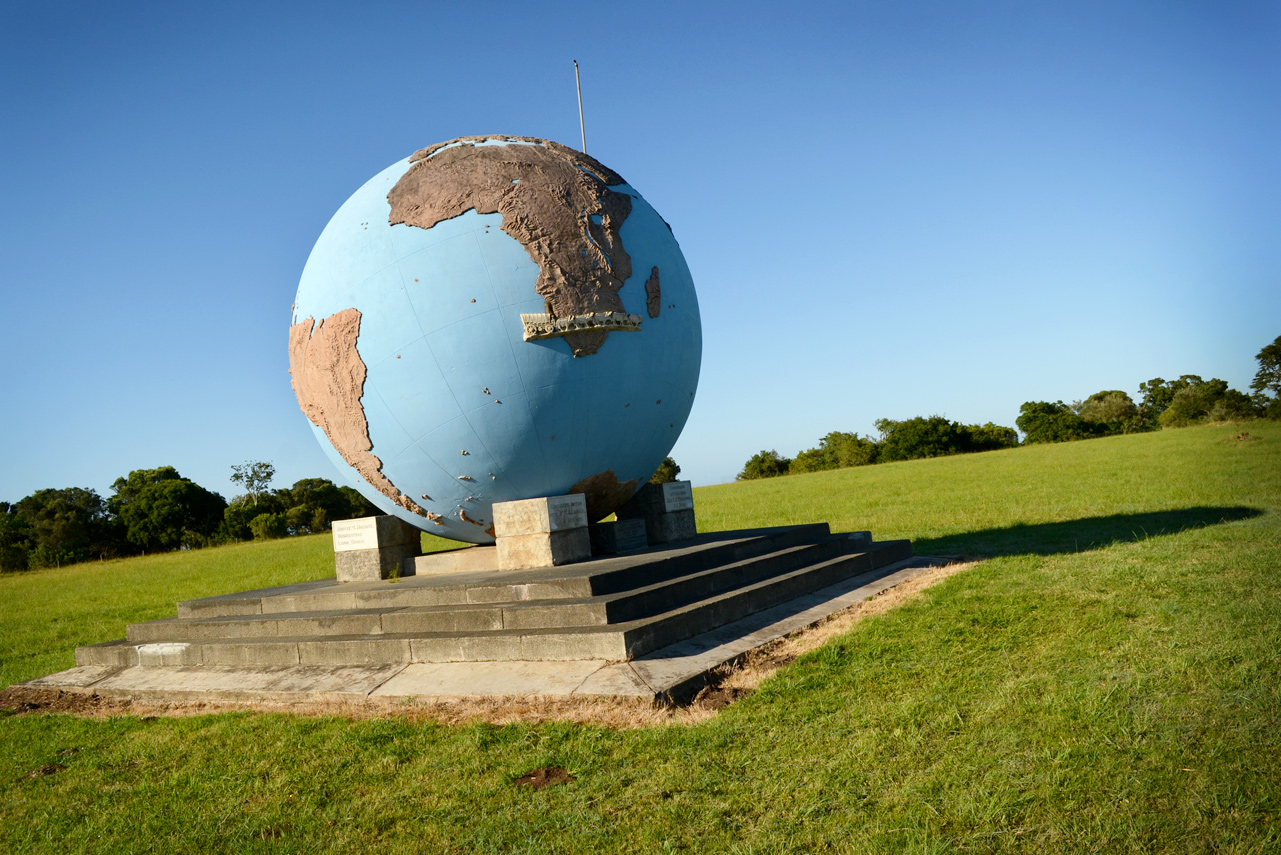 An interesting globe monument designed by the same architect responsible for the Voortrekker Monument, and built a year after in 1939. It's on a dirt road about 40 from Port Elizabeth in the Eastern Cape, South Africa. It celebrates the 100th anniversary of the trek from the Eastern Cape area under the leadership of Karel Landman. This media shows a South African Protected Site with SAHRA file reference [1].